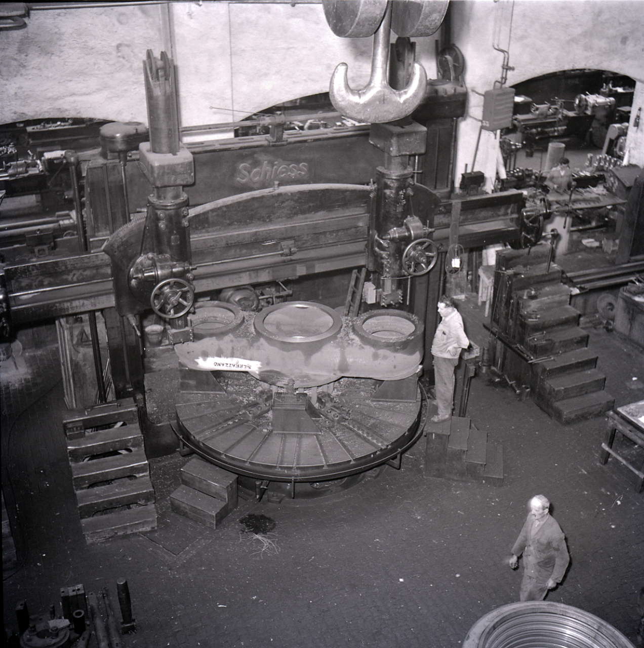 Vertical boring and turning mill in Italy in 1958.